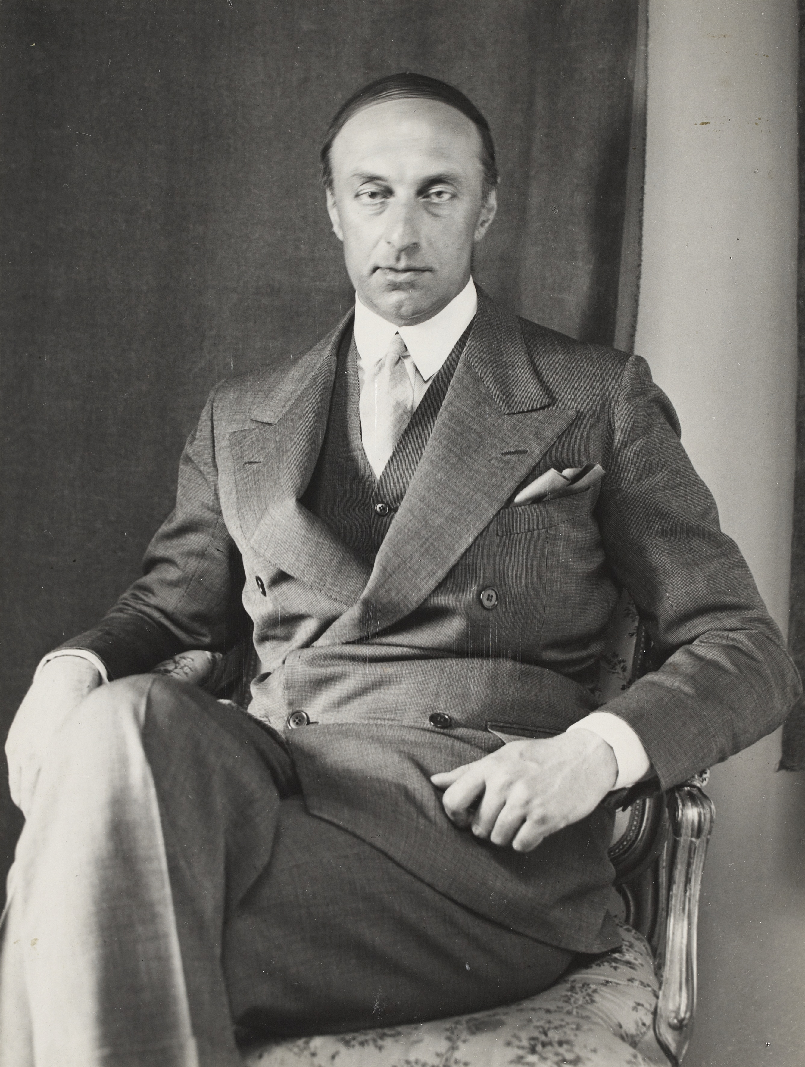 Photograph of the Finnish diplomat Georg Achates Gripenberg (1890–1975).